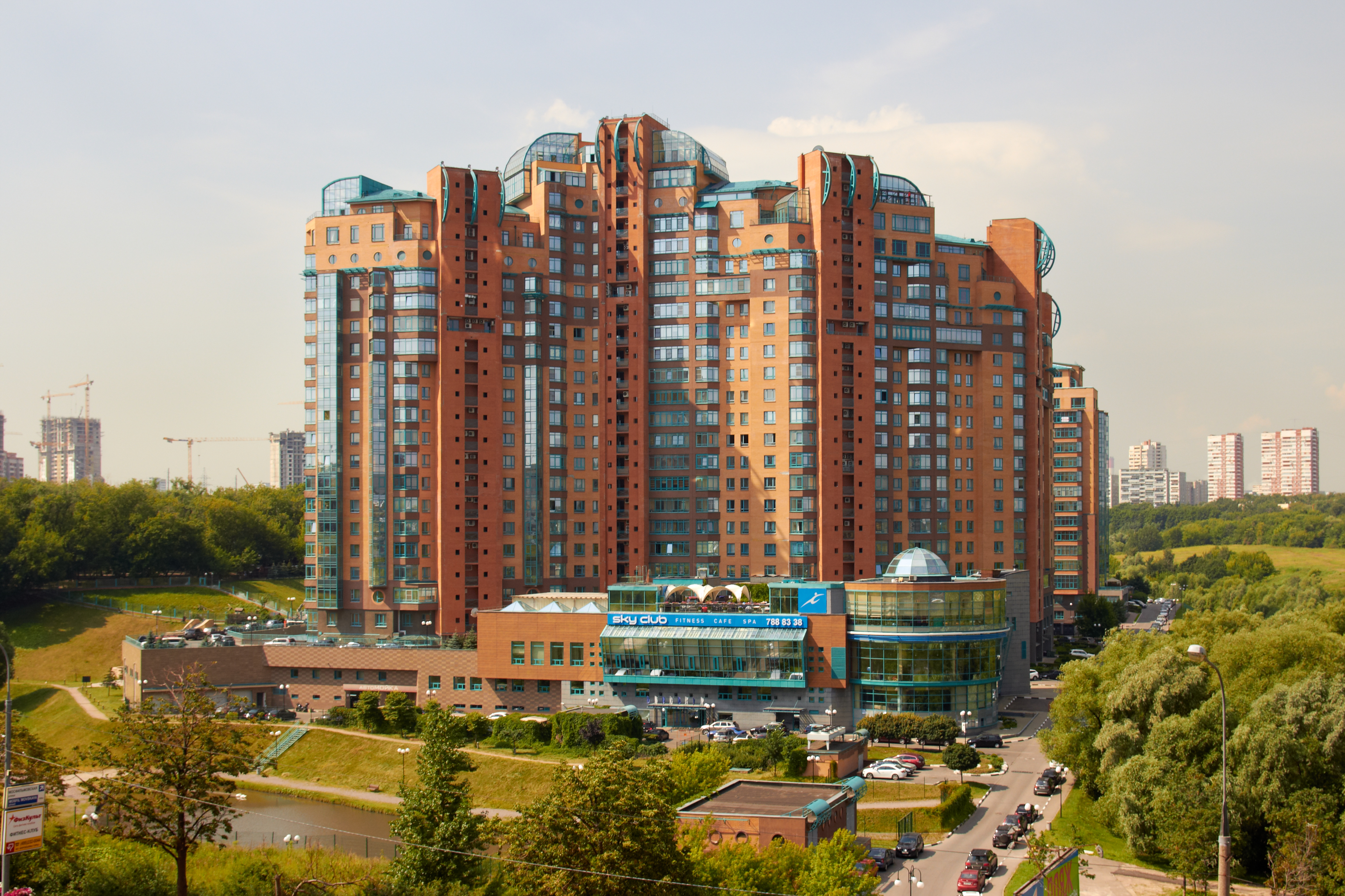 residential complex Zolotye kljuchi 2